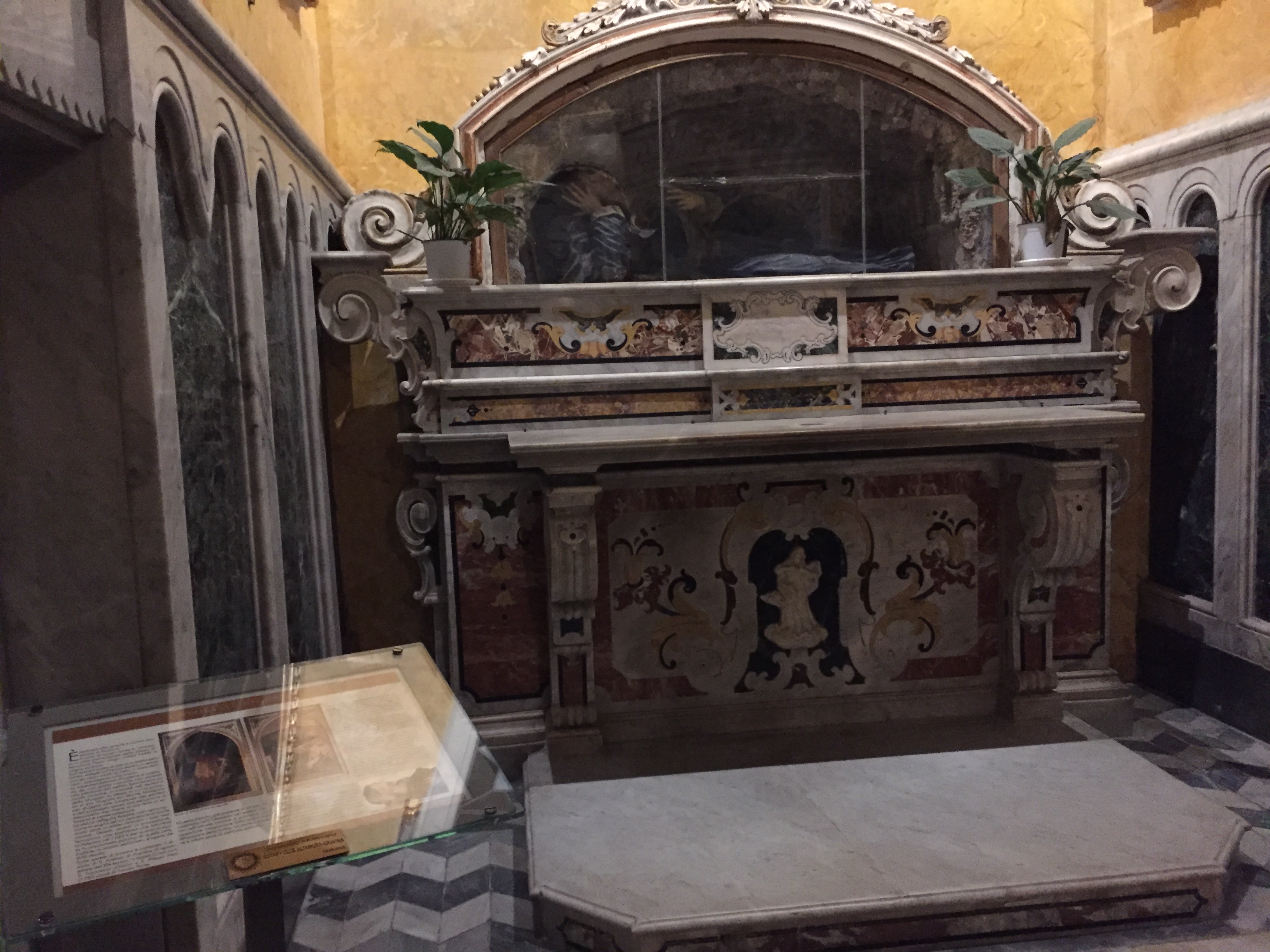 Altamura Cathedral - Cappella di Santa Rosalia